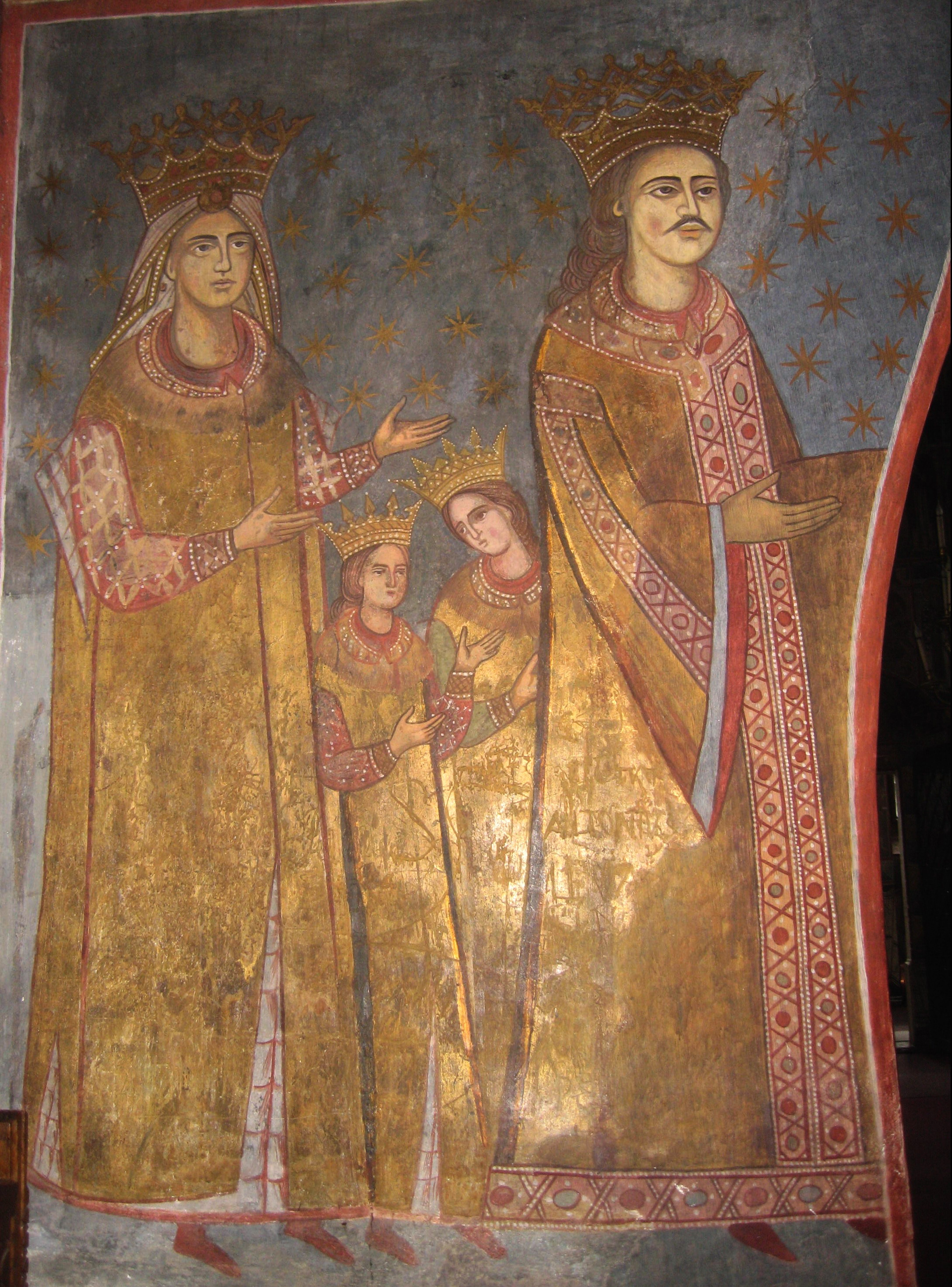 St. Demetrius Church in Suceava - inside painting of Petru Rareş and his family.